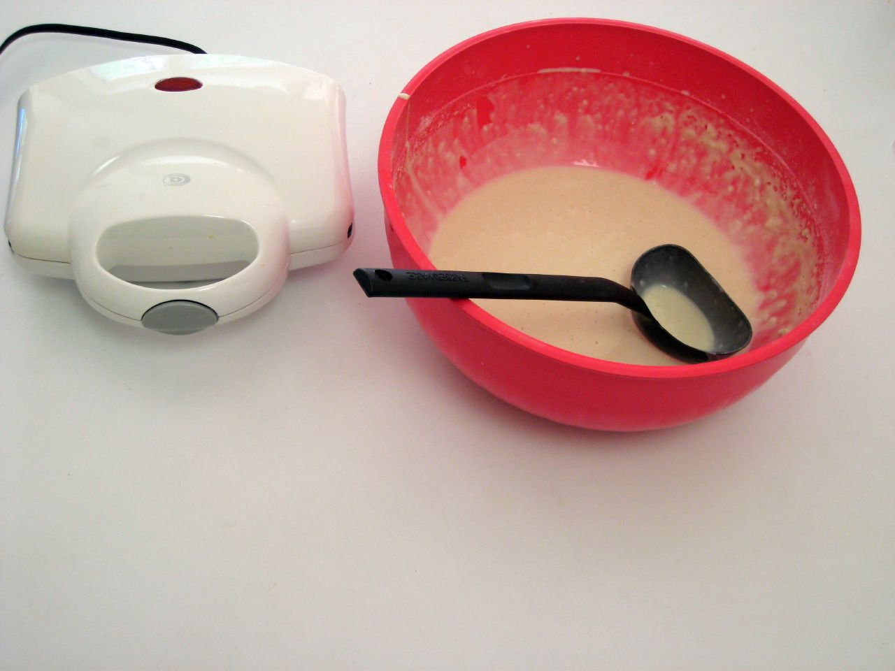 Yes, the ladle is melted a bit. But it now holds the ideal amount for ladling waffle batter.